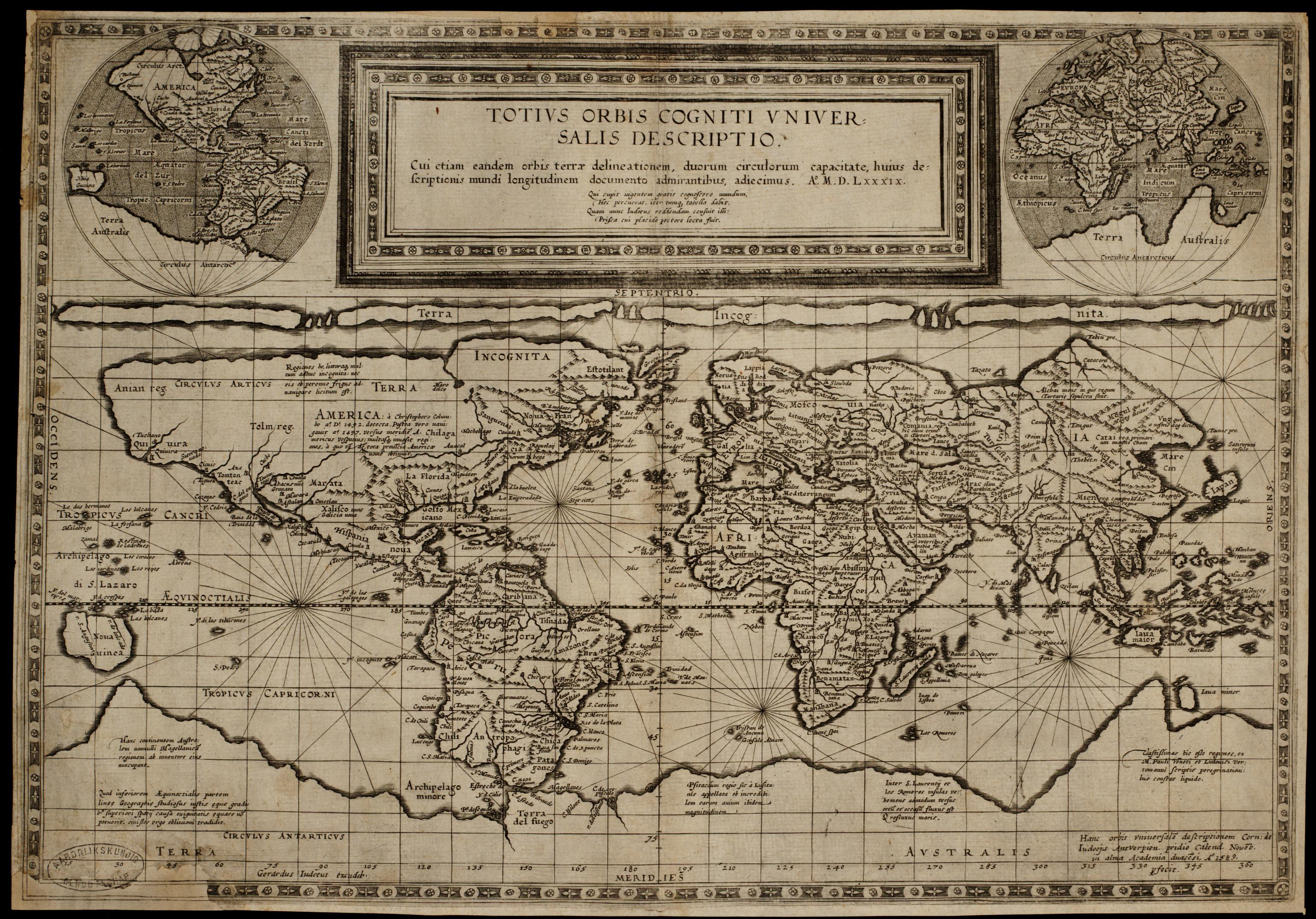 World map; title: Totius Orbis Cogniti Universalis Descriptio; size 35 x 50 cm